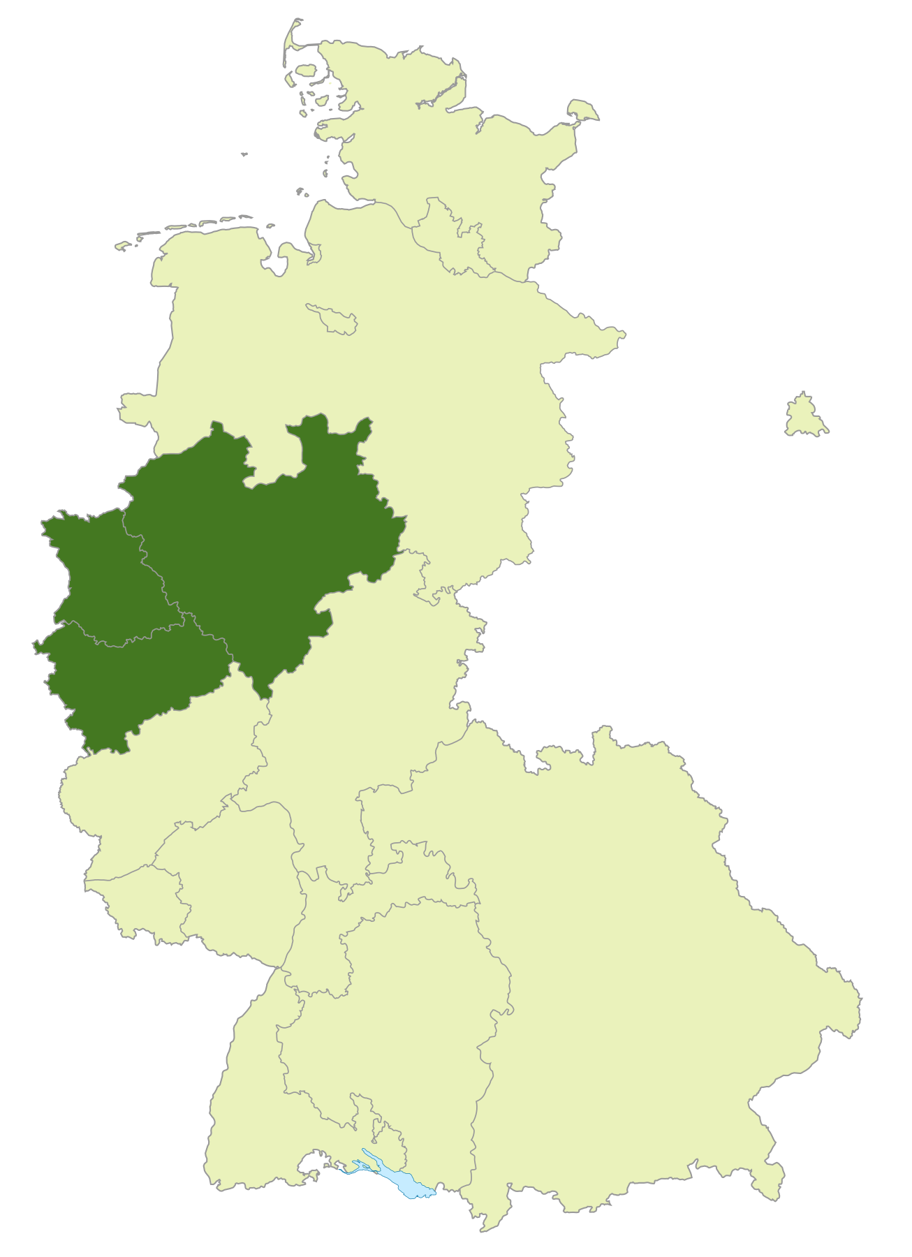 Germany's Regional Soccer Association of Westdeutschland,1947-1990